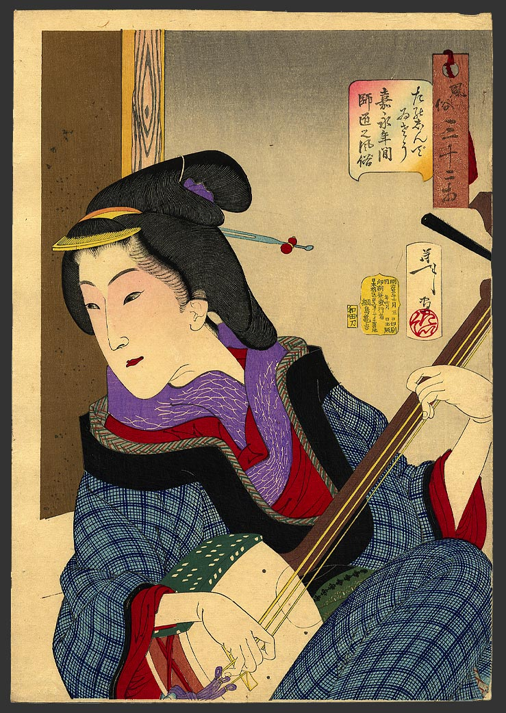 colored woodcut